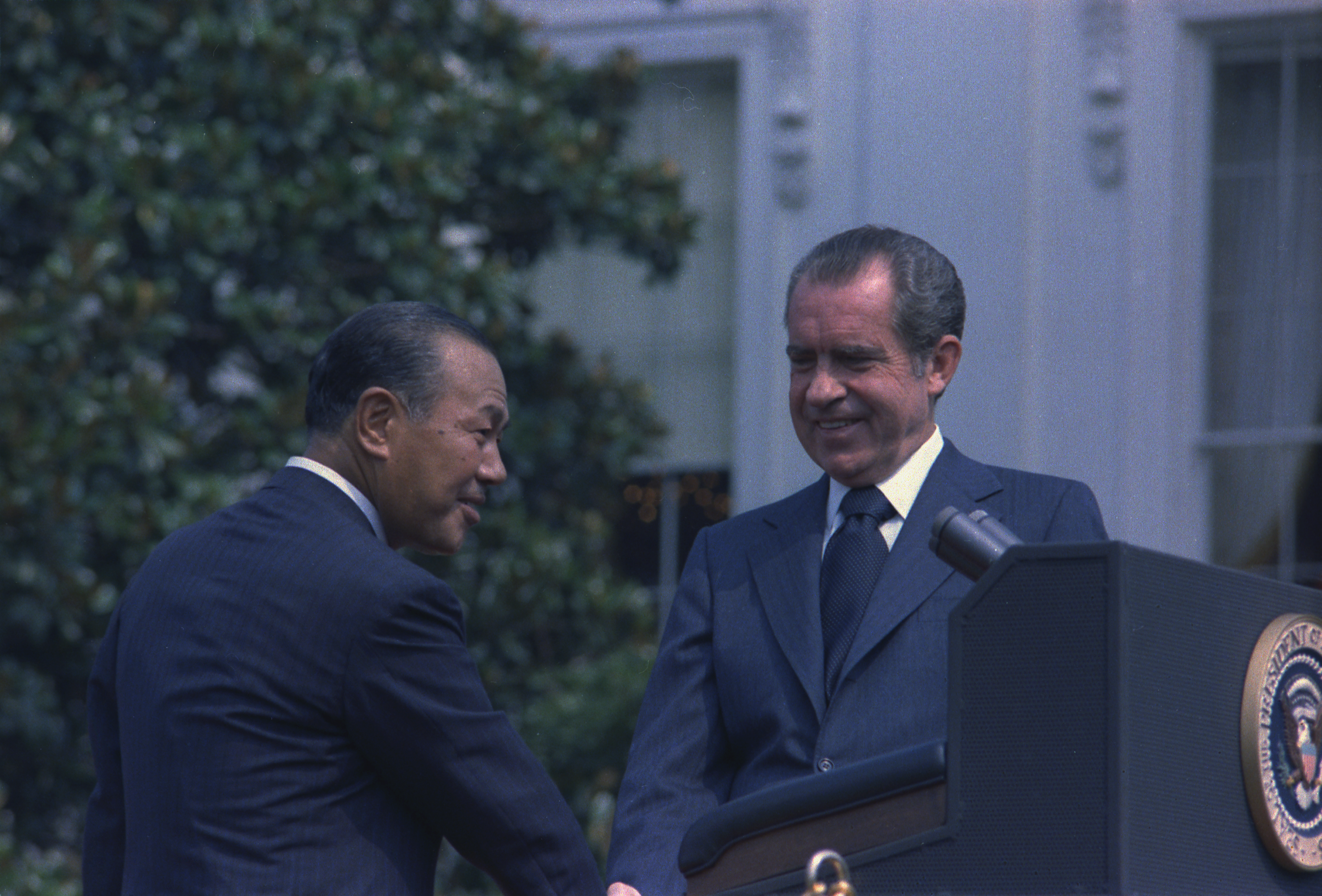 Takaka and Nixon 1973